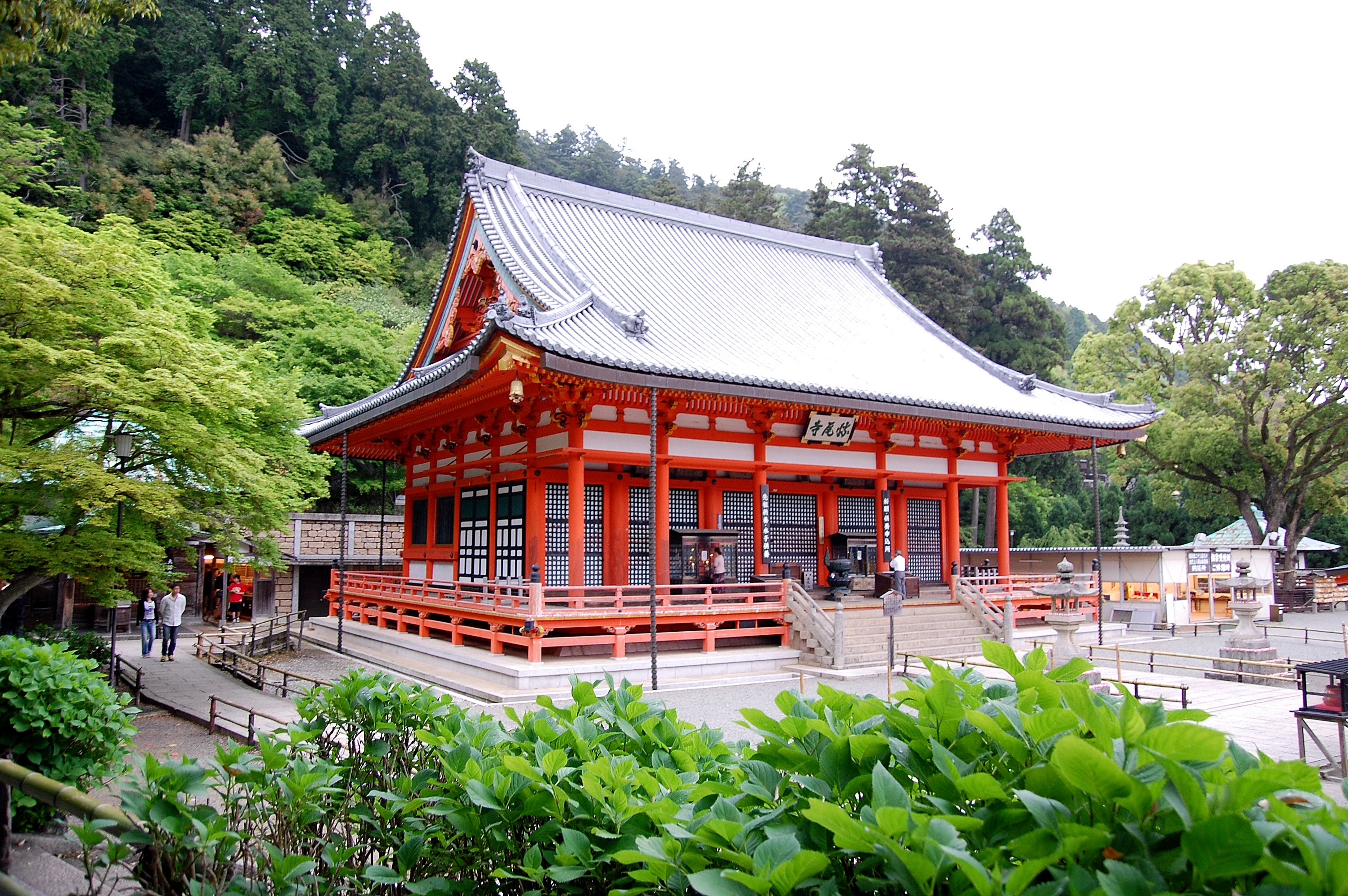 Japanese[edit] ファイルの概要[edit] Description